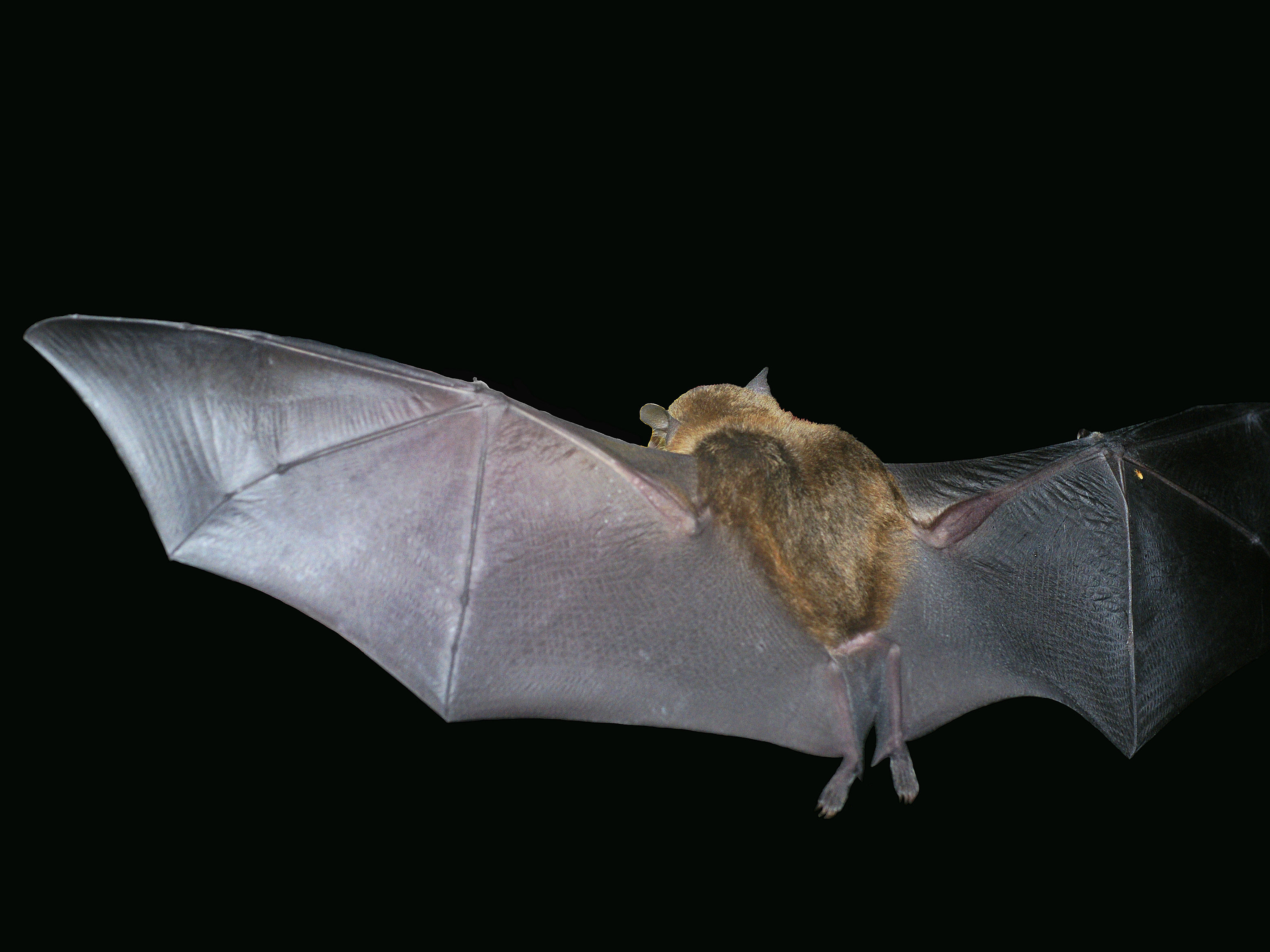 Orange Nectar Bat at Rara Avis near Las Horquetas, Costa Rica